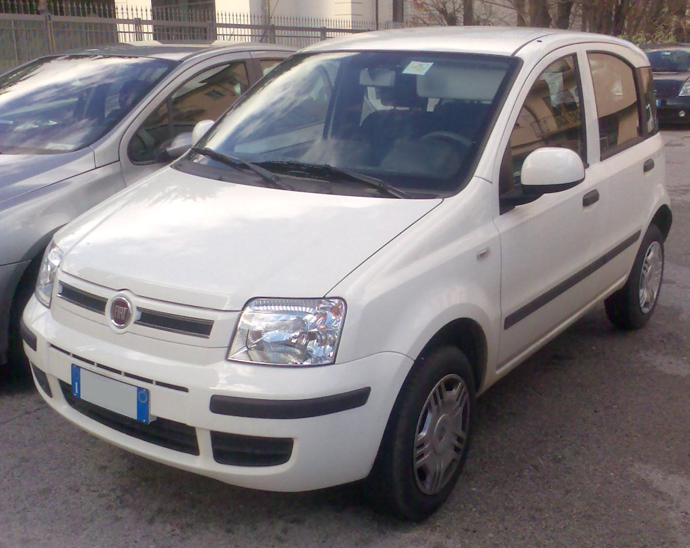 Fiat Panda Panda Natural Power facelift 2010.